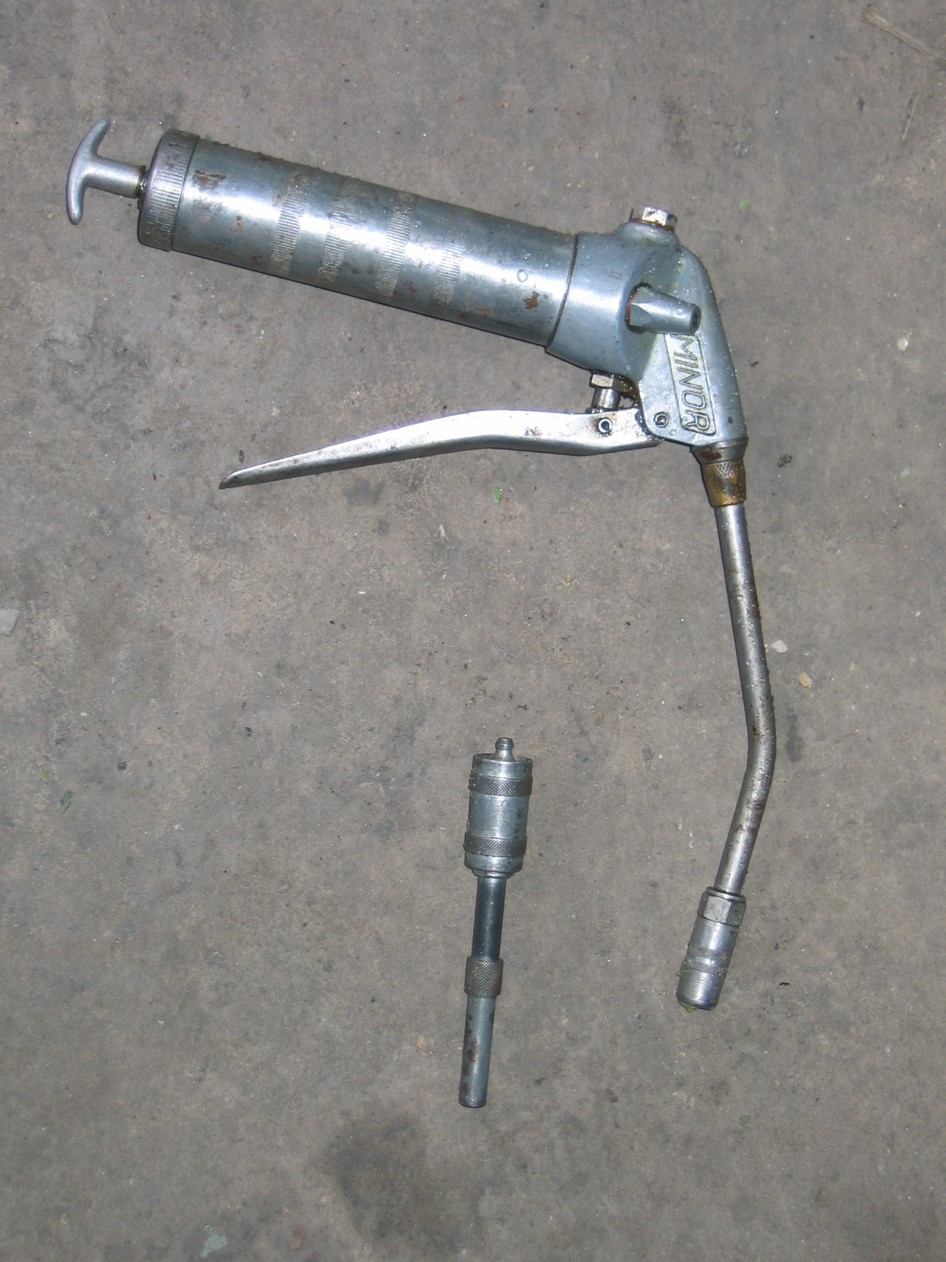 From the Pinzgauer tool kit.